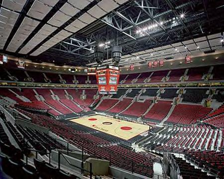 Inside of Rose Garden Arena, circa 2001.